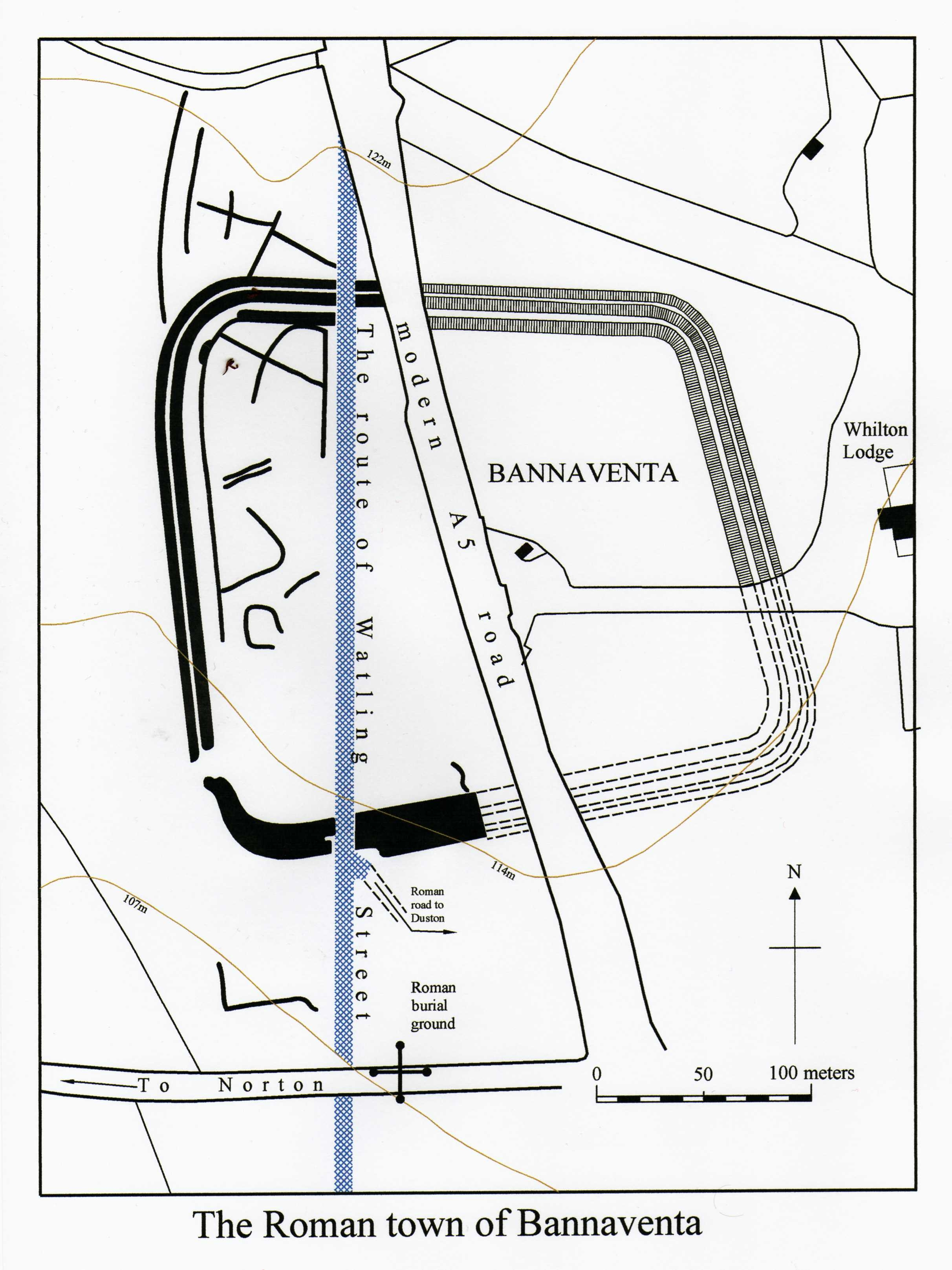 A scanned image of a map of the site of the Roman town of Bannaventa created using AutoCAD software, made by Stavros1 (talk) 16:32, 26 January 2008 (UTC) on the 25th January 2007